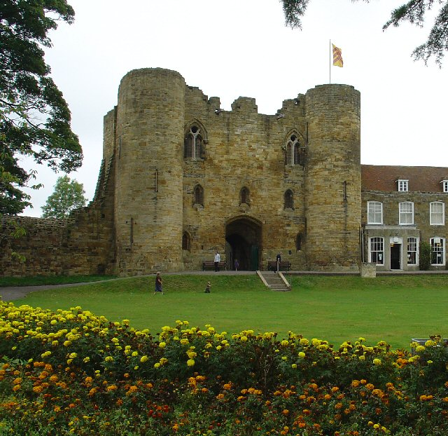 Tonbridge Castle Gatehouse - South Side, Tonbridge, Kent